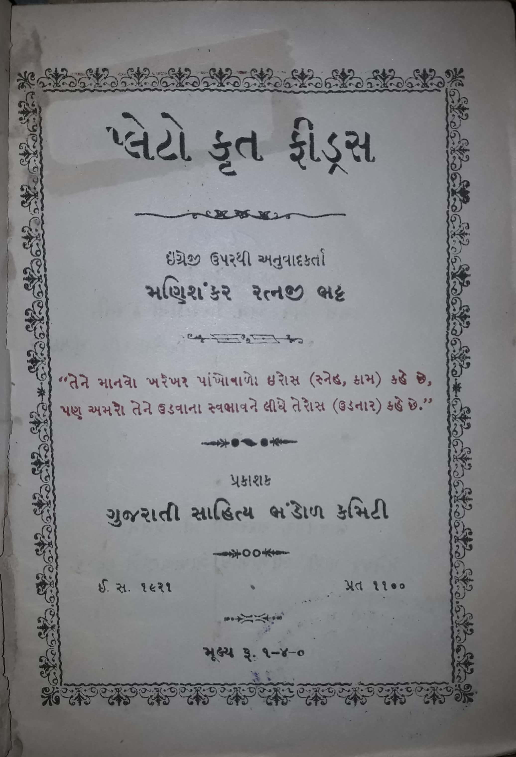 Gujarati translation of Plato's Phaedrus, done by Gujarati writer and post Manishankar Ratnaji Bhatt 'Kant'